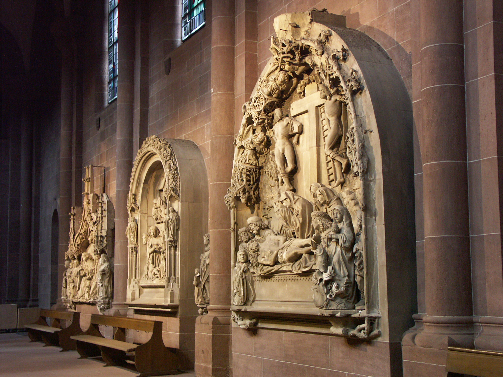 Cathedral St. Peter (Dom St. Peter), Worms, Germany - Tympanums